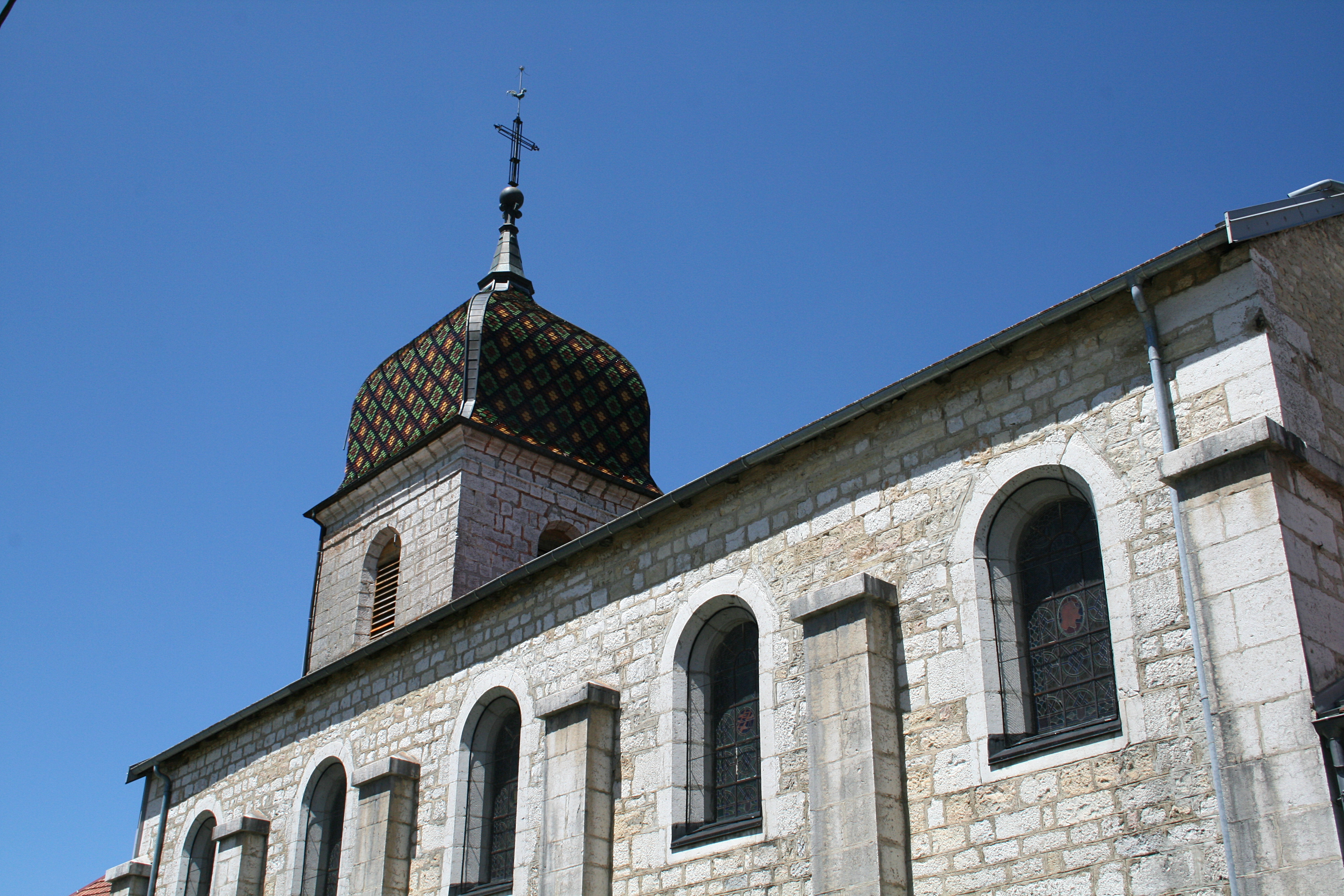 Arçon (Doubs - France), the church of the Assumption.